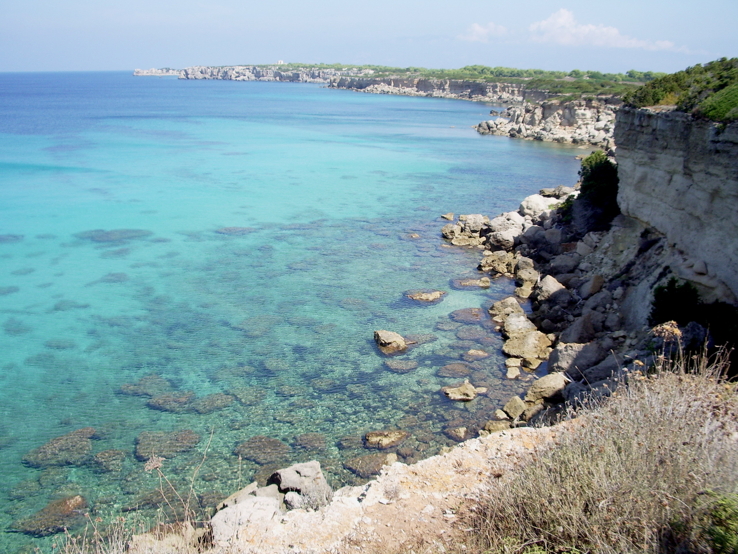 Isola di Pianosa and sea — within the Arcipelago Toscano National Park.